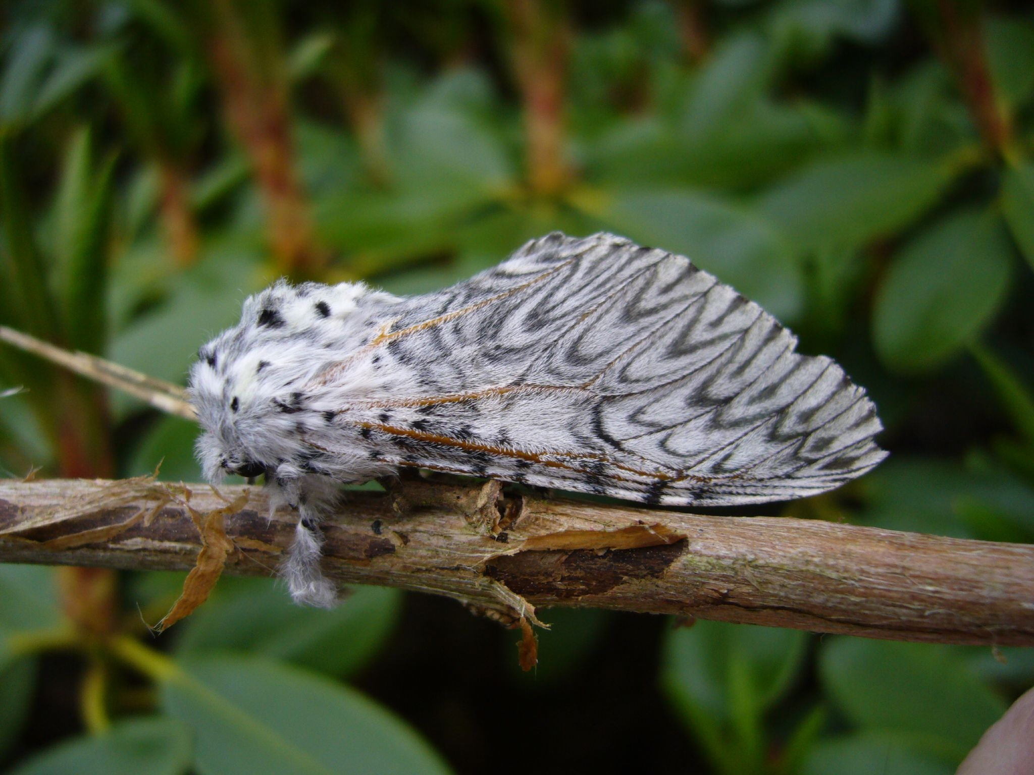 Cerura vinula - Puss Moth I found this guy sitting on the lawn after we'd had a rain shower this afternoon, I picked him up and put him on my Rhododendron bush which was still in flower (so he could have something to eat if he was peckish)